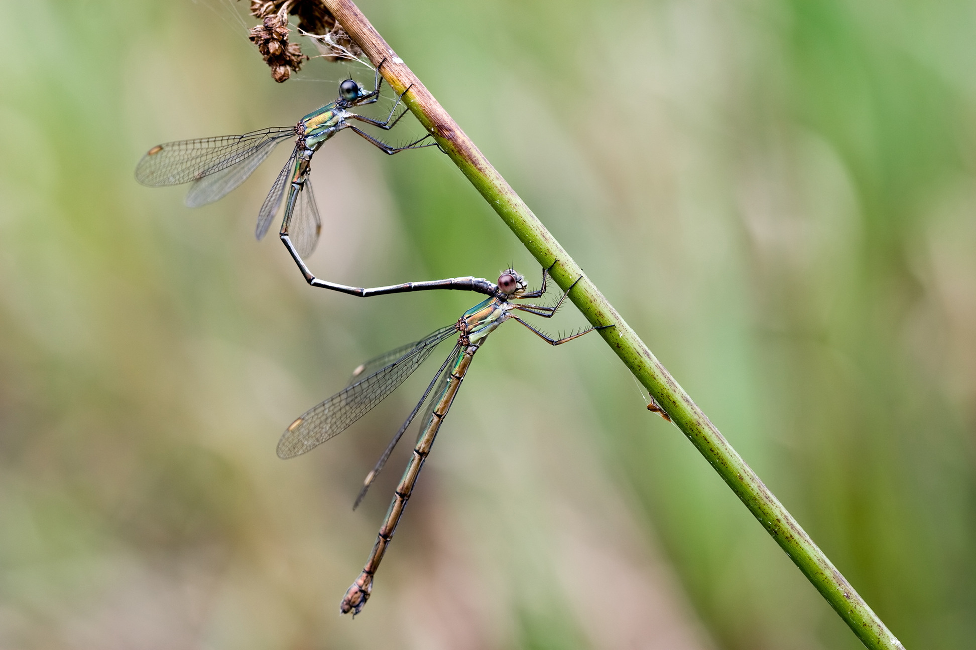 Pair of Willow Emerald Damselflies (Chalcolestes viridis) in the Ahlenmoor, a peatland in northern Lower Saxony, Germany. The upper animal is the male. Consider the characteristic, forward directed tip in the lateral thorax markings and the light brown colored pterostigmata bordered by dark veins.